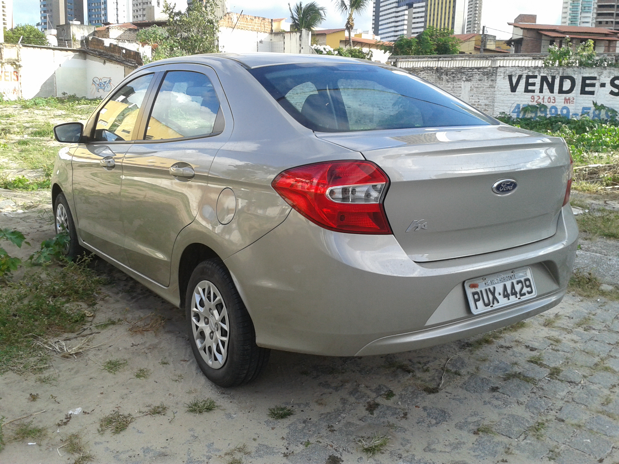 Ford Ka sedan